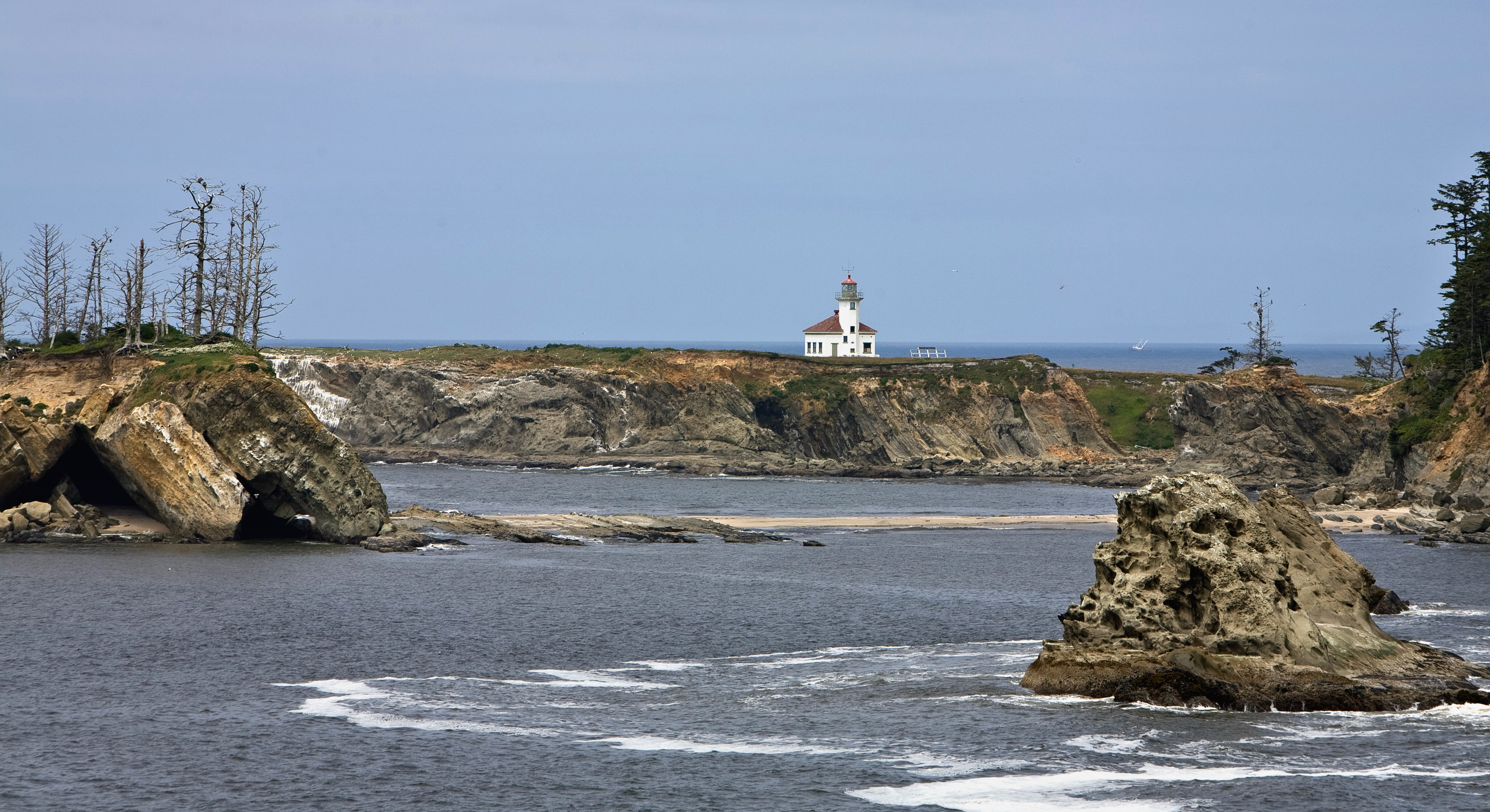 Cape Arago Lighthouse near Charleston, Oregon.